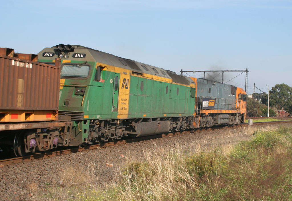 AN_class diesel locomotive AN11 still in Australian National Rail Commission green and yellow livery, trailing a NR class locomotive in Newport , Victoria